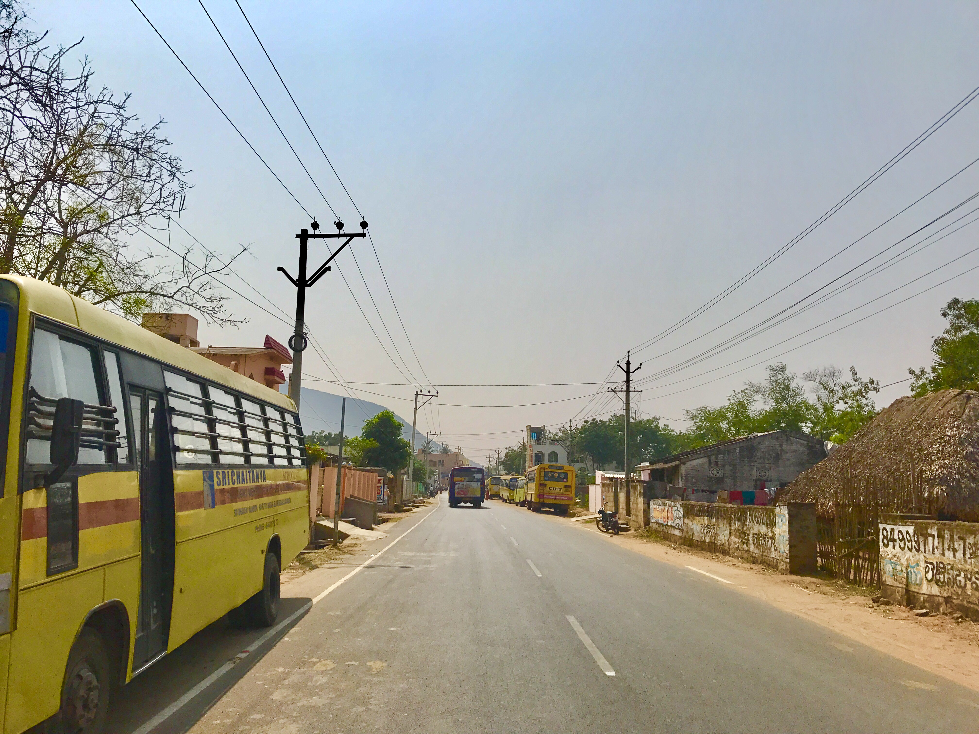 Penumaka, Vijayawada road